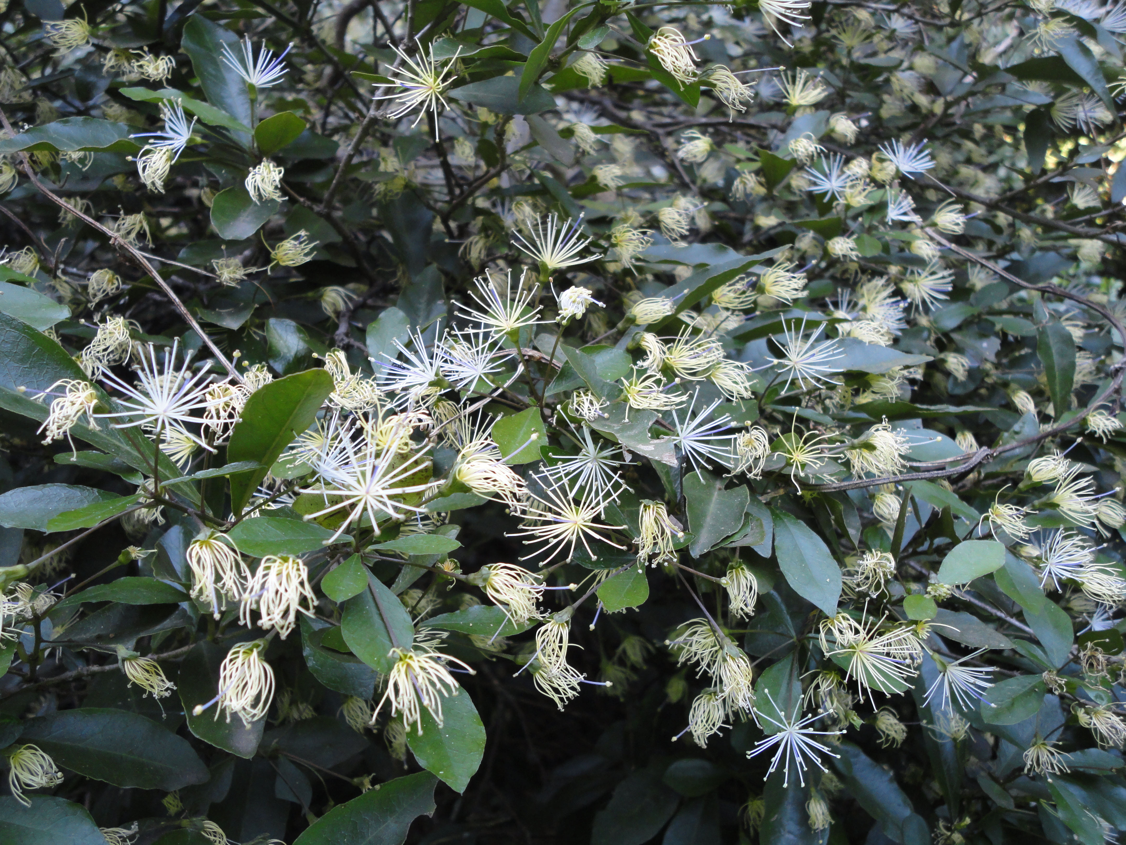 Forest bush-cherry in full flower in Burman Bush Nature Reserve, Durban, South Africa